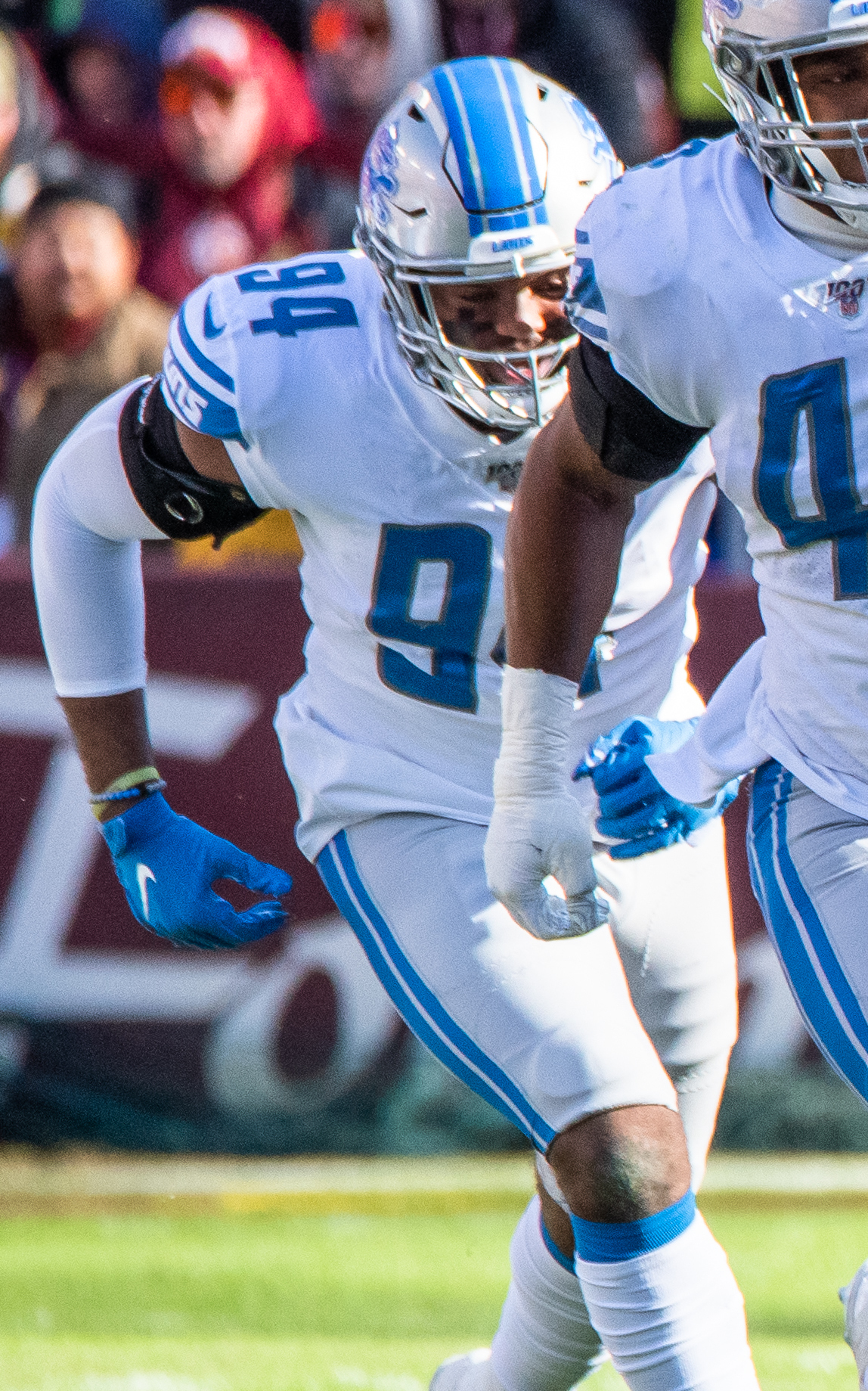 In 2019